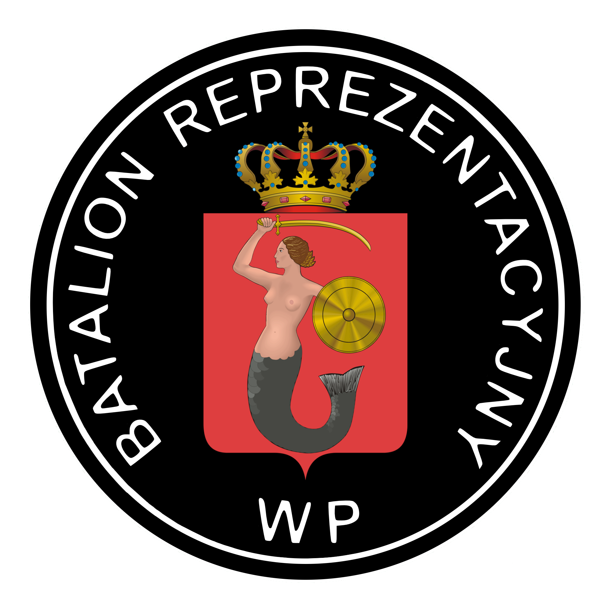 Shoulder patch of the Polish Armed Forces Honor Guard Battalion